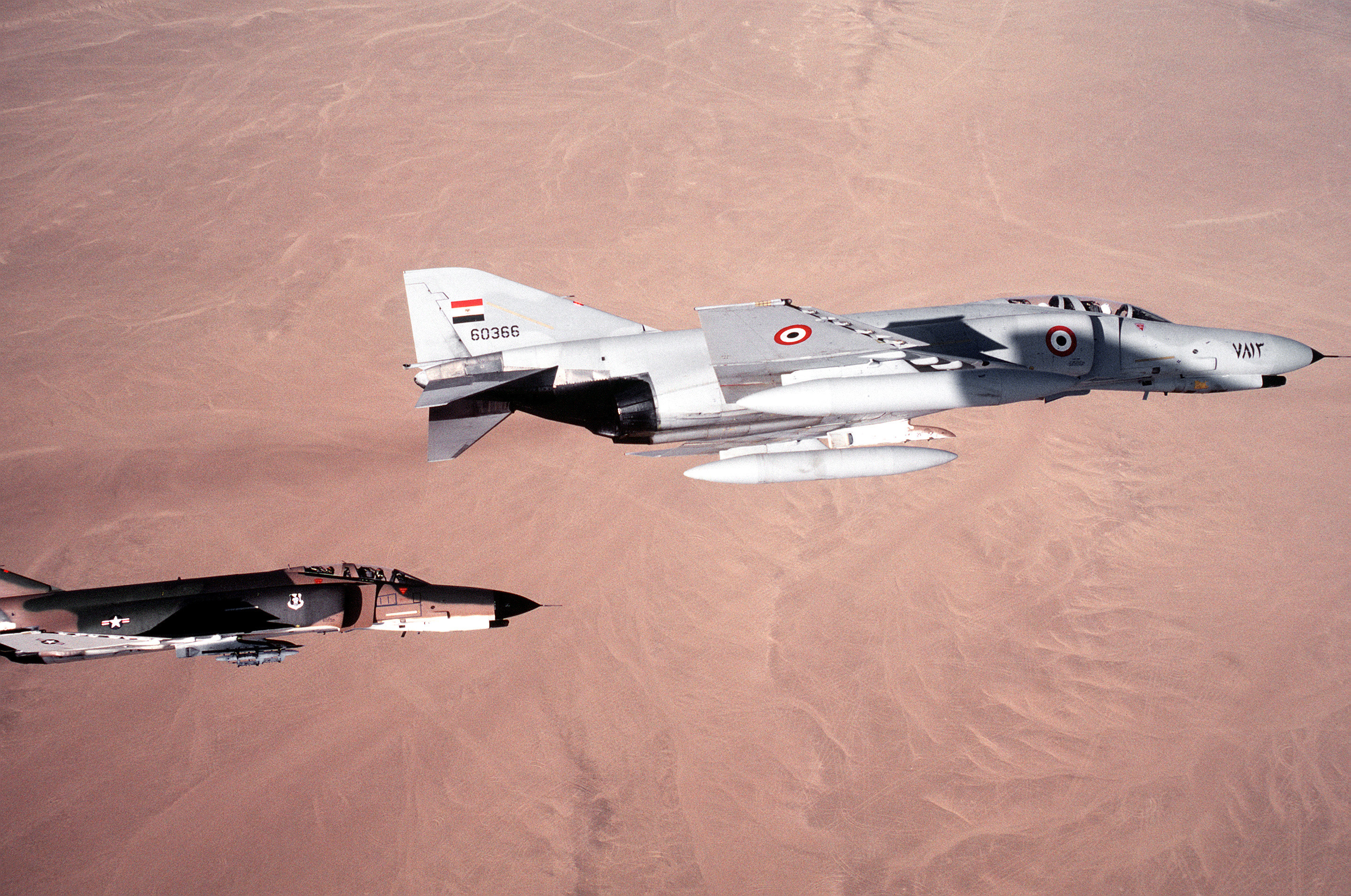 An air-to-air right side view of an Egyptian air force McDonnellDouglas F-4E Phantom II aircraft in formation with a 347th Tactical Fighter Wing F-4E aircraft during exercise PROUD PHANTOM in 1980. Egypt received 36 F-4Es under the Peace Pharaoh project as a reward from the USA after signing camp-David peace agreement. The first batch of 18 fighters arrived in Egypt in October 1979. The Egyptian Phantoms were ex-USAF aircraft previously flown by the 31st TFW based at Homestead AFB. They were initially operated No. 76 and 88 squadrons of the 222nd Fighter Regiment.